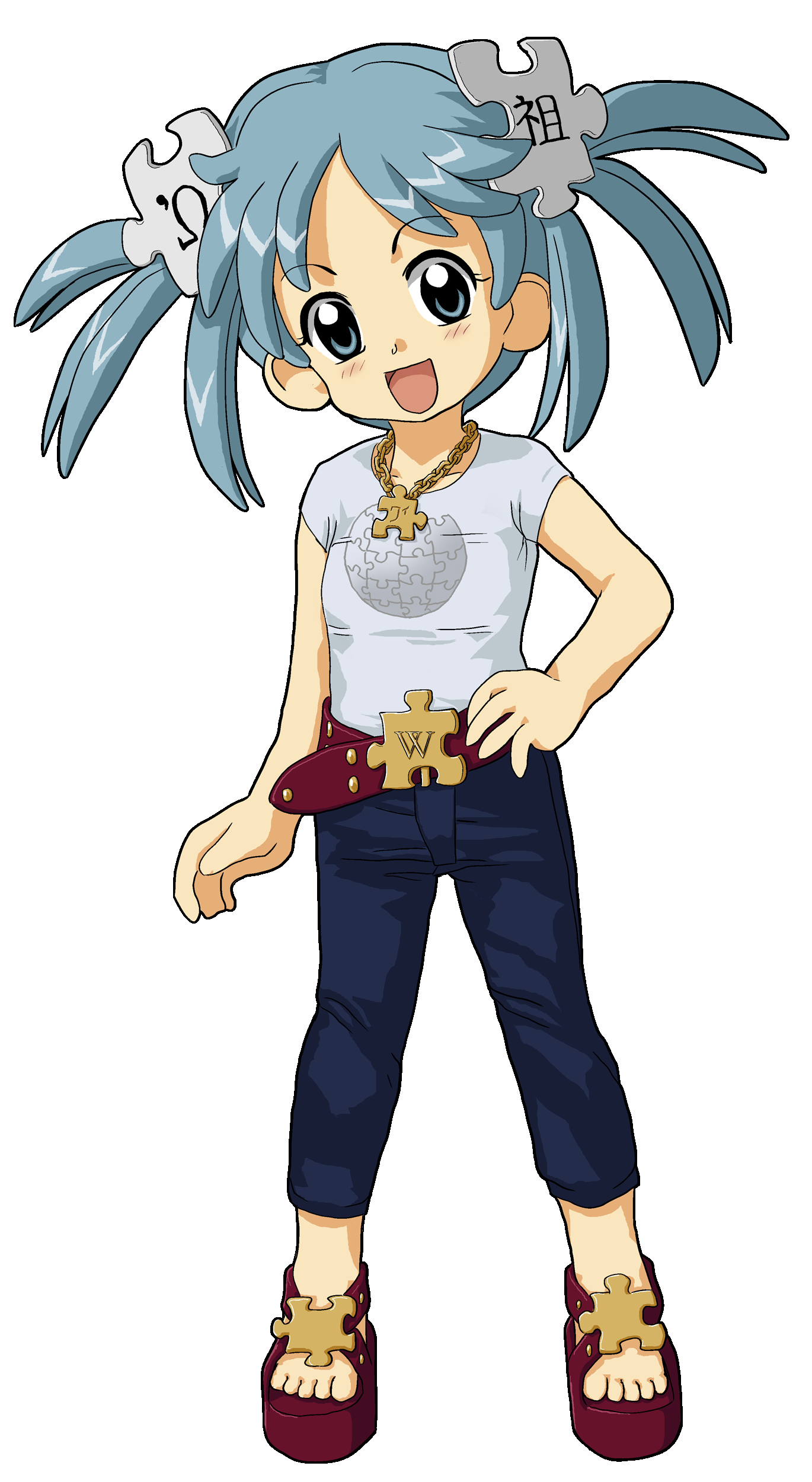 Wikipe-tan in more comfortable clothing.